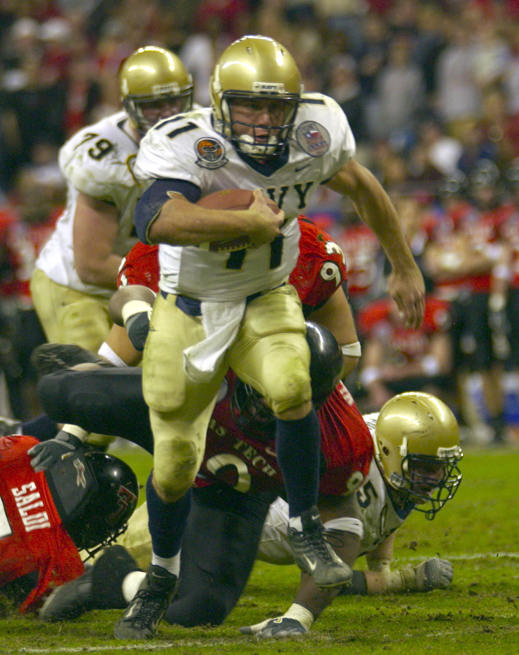 Houston, Texas (Dec. 30, 2003) -- Navy quarterback Craig Candeto gains yardage on a rushing attempt during the Houston Bowl at Reliant Stadium in Houston, Texas. The Midshipmen of the U.S. Naval Academy lost to the Red Raiders, 38-14, leaving Navy with an 8-5 record on the year. Navy boasted the top rushing offense in Division 1-A, while Tech had the nation’s leading passing offense. U.S. Navy photo by Damon J. Moritz. (RELEASED)